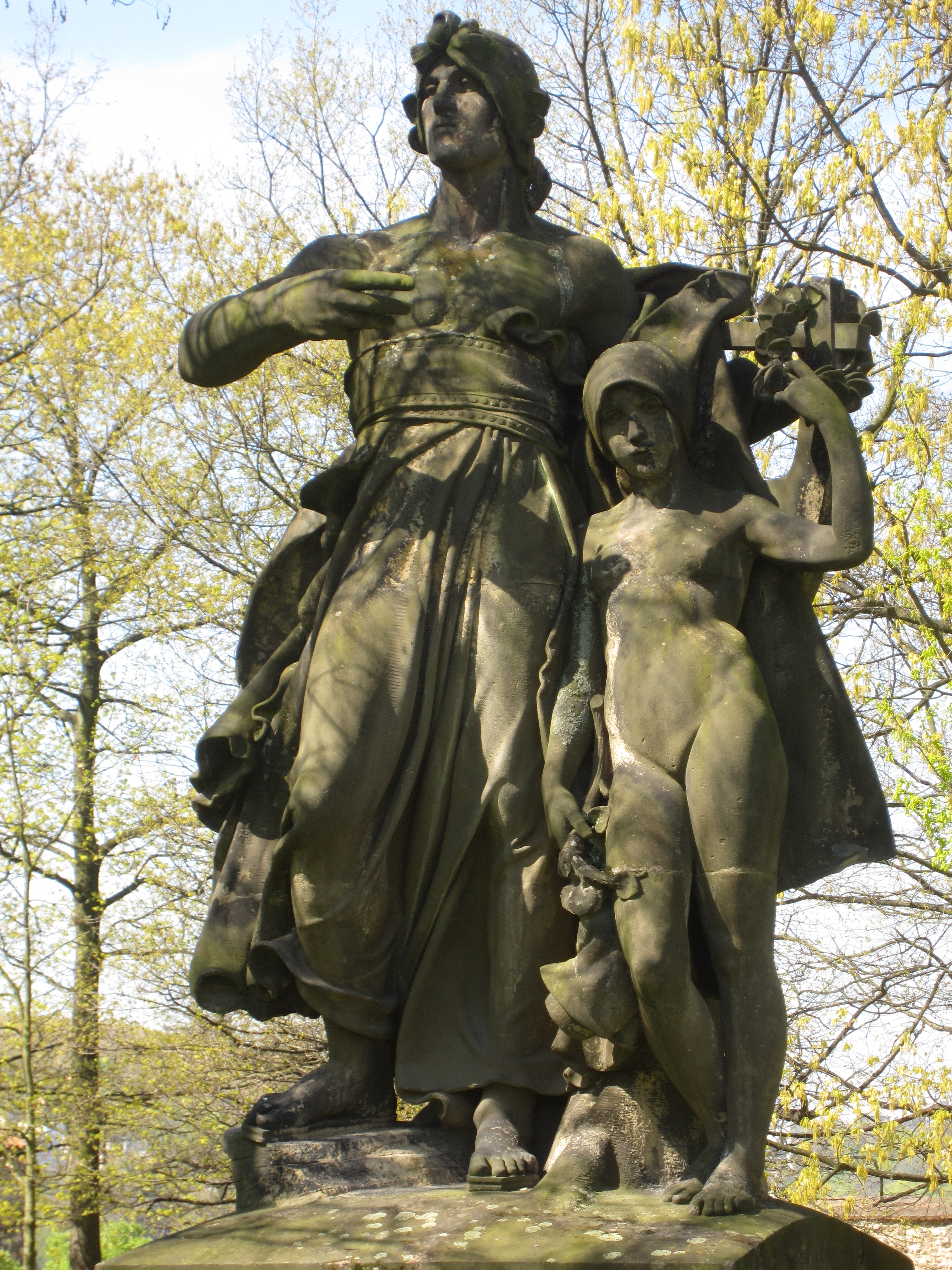 Prague, Czech Republic, April 2016